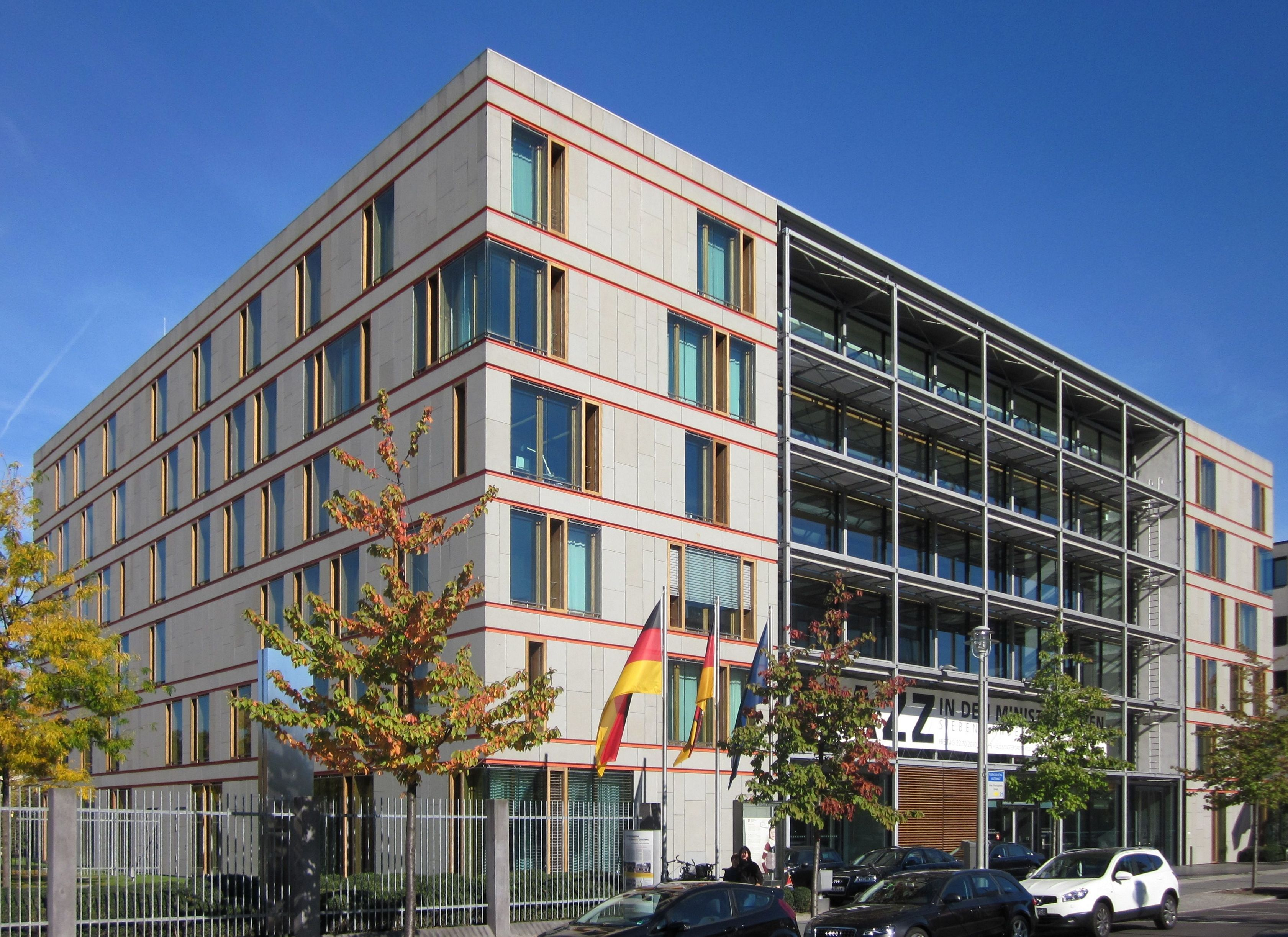 Shared building of the representations of the states of Lower Saxony (left half) and of Schleswig-Holstein (right half) to the German federal government, In den Ministergärten 8-10, in Berlin-Mitte. The building was constructed from 1999 to 2000 to a design by the Cornelsen & Seelinger and Seelinger & Vogels from Darmstadt.